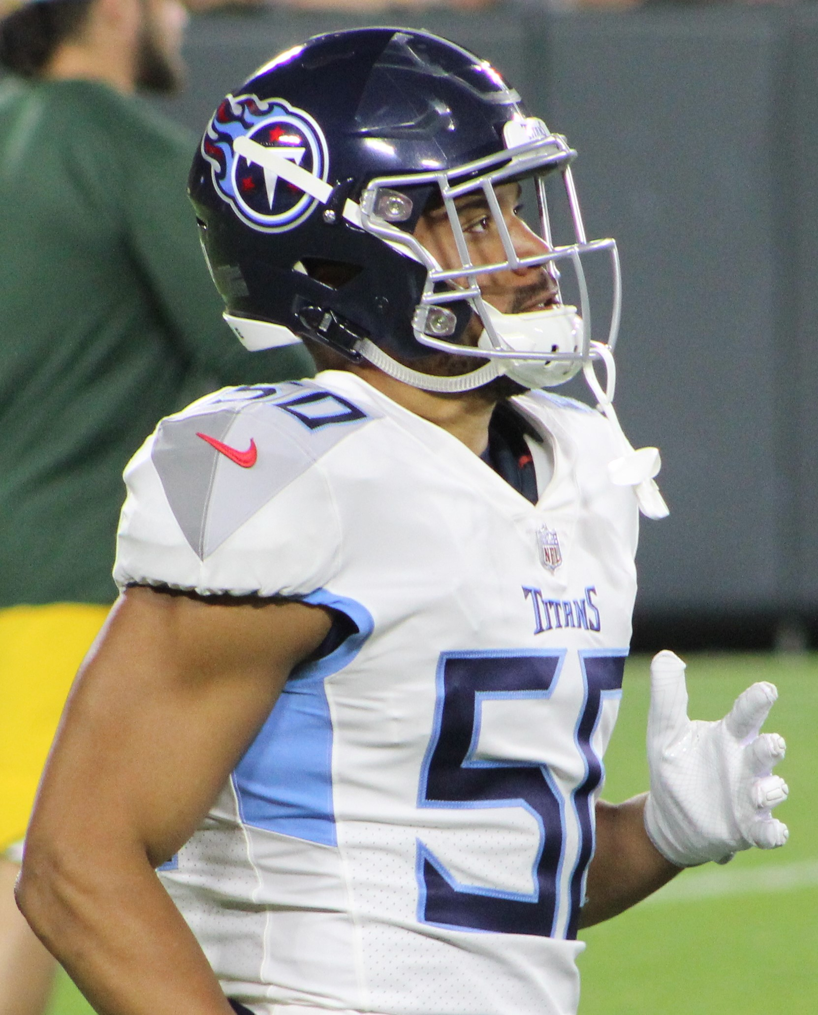 Nate Palmer, Tennessee Titans at Green Bay Packers (Preseason), August 9, 2018